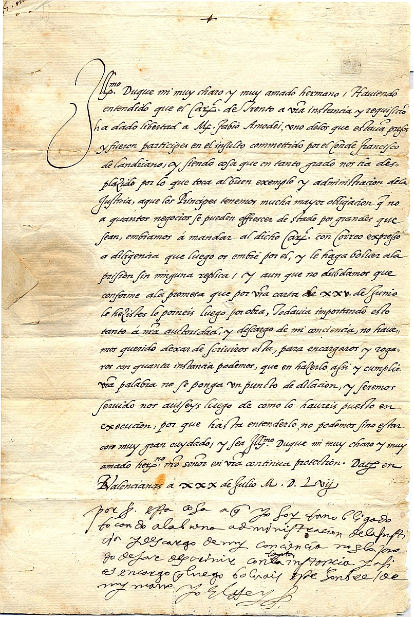 A letter by King Philip II of Spain to Ottavio Farnese dated 1557-7-31 and concerning a case of maladministration of justice. The final lines are in the king's hand.